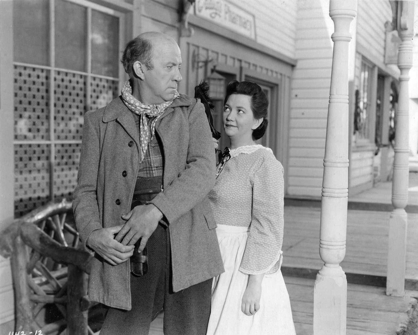 Publicity still for In Old California 1942 western movie. Edgar Kennedy and Patsy Kelly.